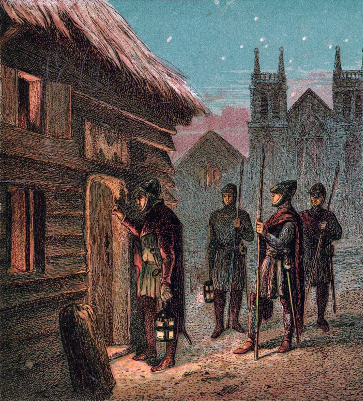 The enforcement of the Curfew law, which was enacted by William I of England